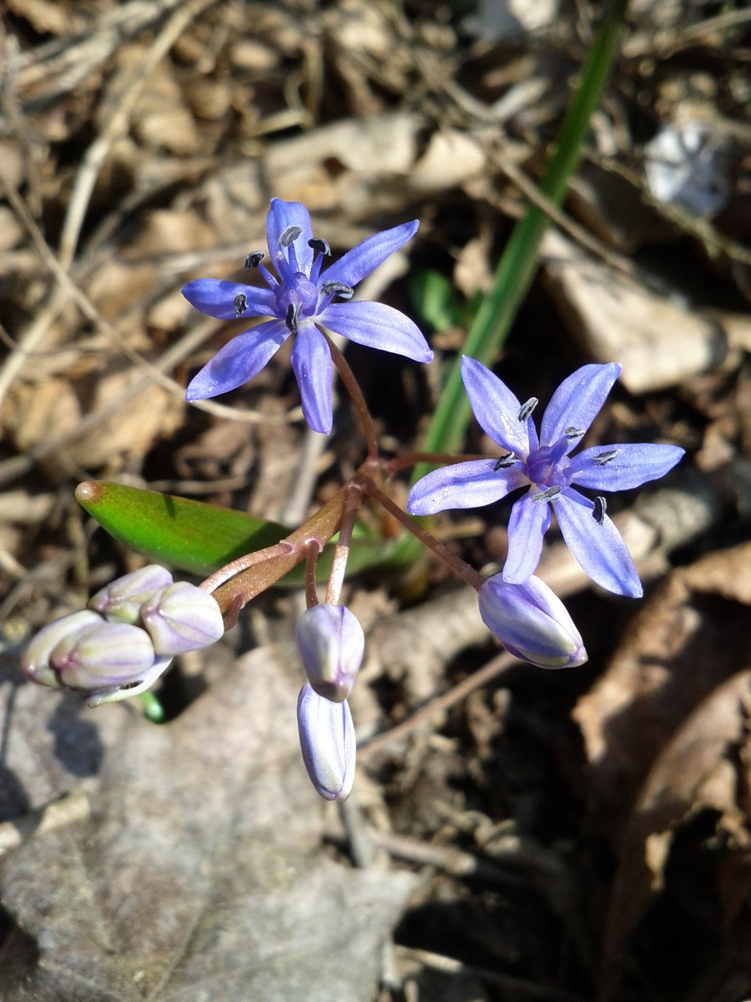 Inflorescence Taxonym: Scilla vindobonensis ss Fischer et al. EfÖLS 2008 ISBN 978-3-85474-187-9 Location: Rohrwald, district Korneuburg, Lower Austria - ca. 300 m a.s.l. Habitat: border of a deciduous forest